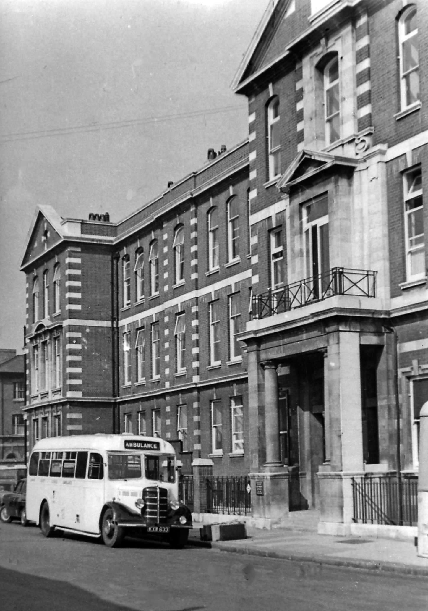 Chelsea Hospital for Women, Dovehouse Street. This is as it was in 1955. A subsidiary to Queen Charlotte's Hospital, it was closed in 1988 and the site converted to the Chelsea wing of the Royal Brompton Hospital.